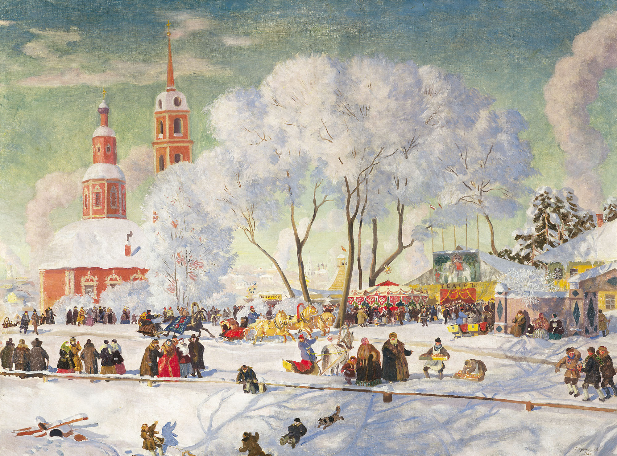 Boris Kustodiev's painting "Shrovetide" (1920).